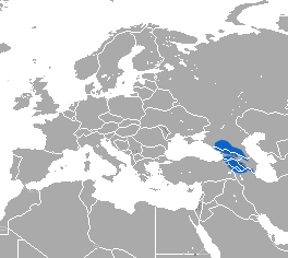 Transcaucasian Water Shrew (Neomys teres) range